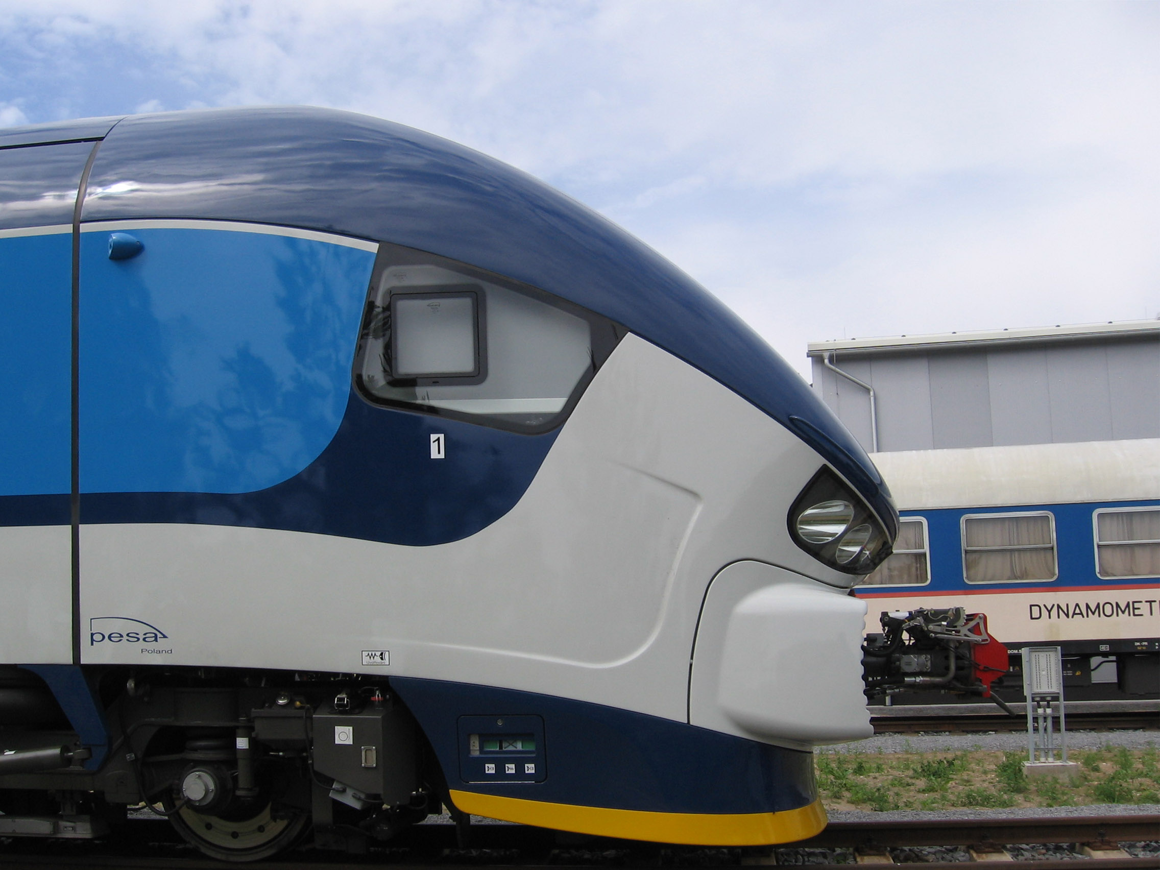 DMU 844.001 ČD in Cerhenice